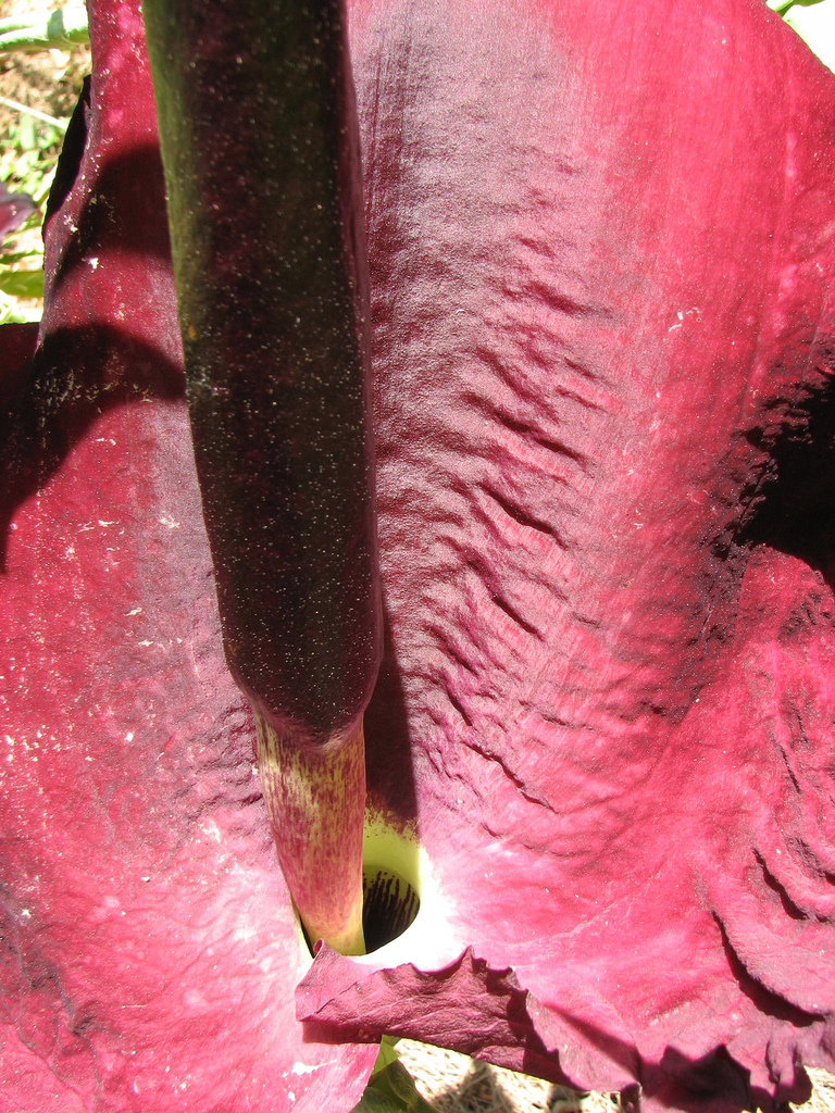 I found these strange flowers in the Rodini park, Rhodes. Don`t know what they are - some kind of orchid maybe? - but they`re enormous: the petal measures at least 15x40 cm and the pistil (?) about 60.